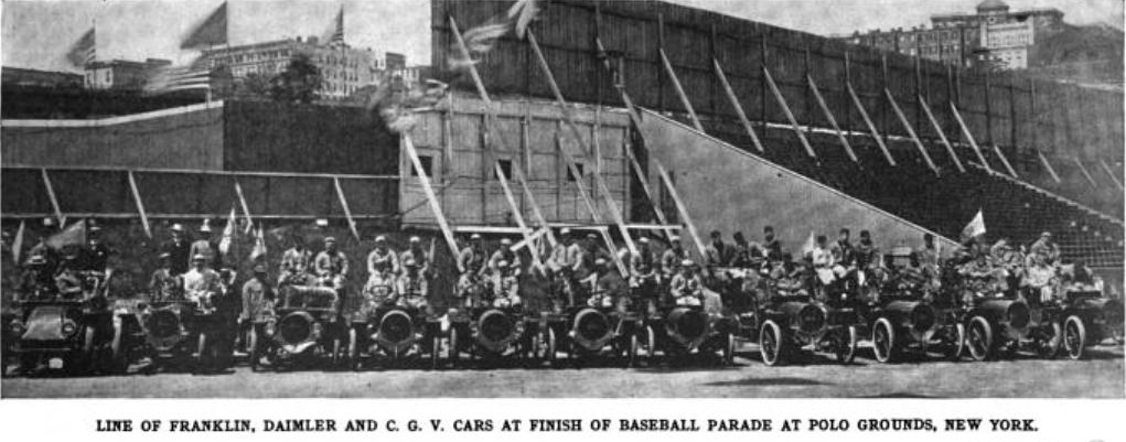 Line of Franklin, Dalmer and C. G. V. cars at finish of baseball parade at polo grounds in New York - 1906